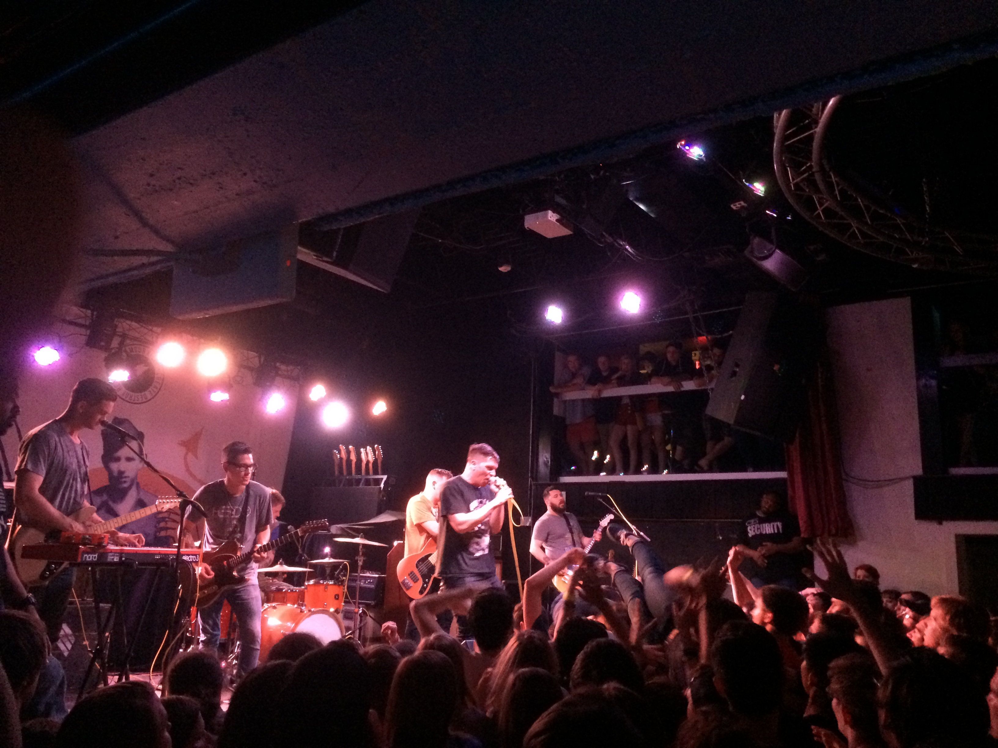 Fireworks performing at Greene Street Club in Greensboro NC on 4/10/14